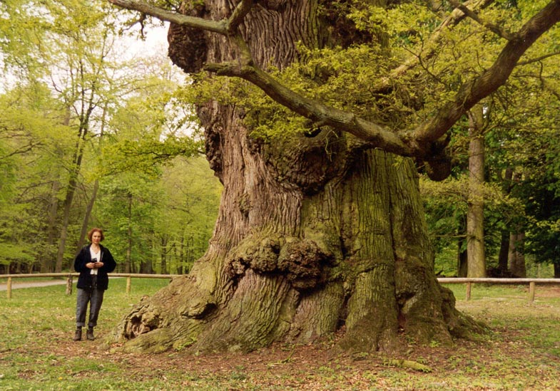 Ivenack Oaks in Mecklenburg-Vorpommern, Germany. Between 750 and 1000 years old, they are among the oldest oaks in Europe.